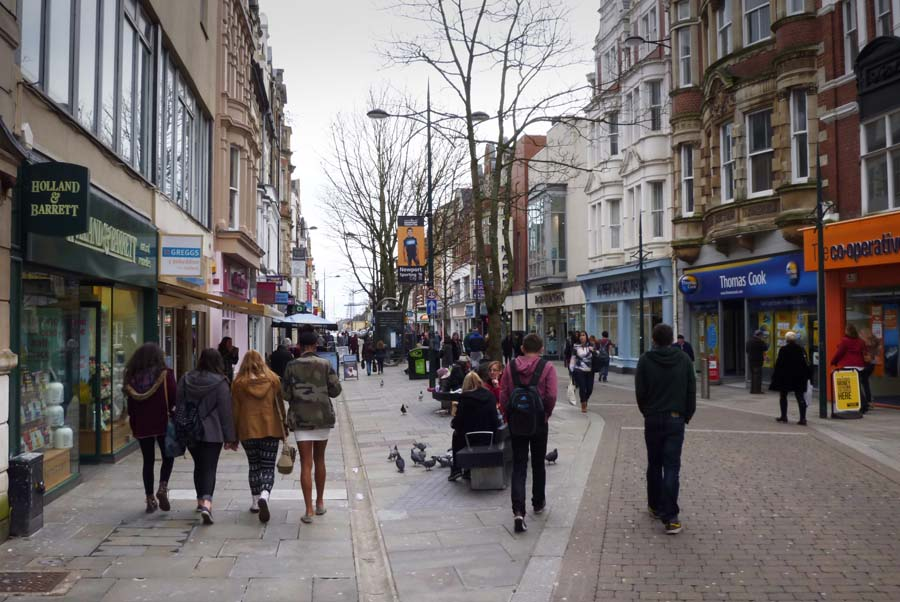 Commercial Street, the main shopping street of Newport, Wales looking south-southeast toward the junction with Charles Street in March 2013